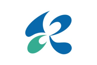 Flag of Kinokawa Wakayama